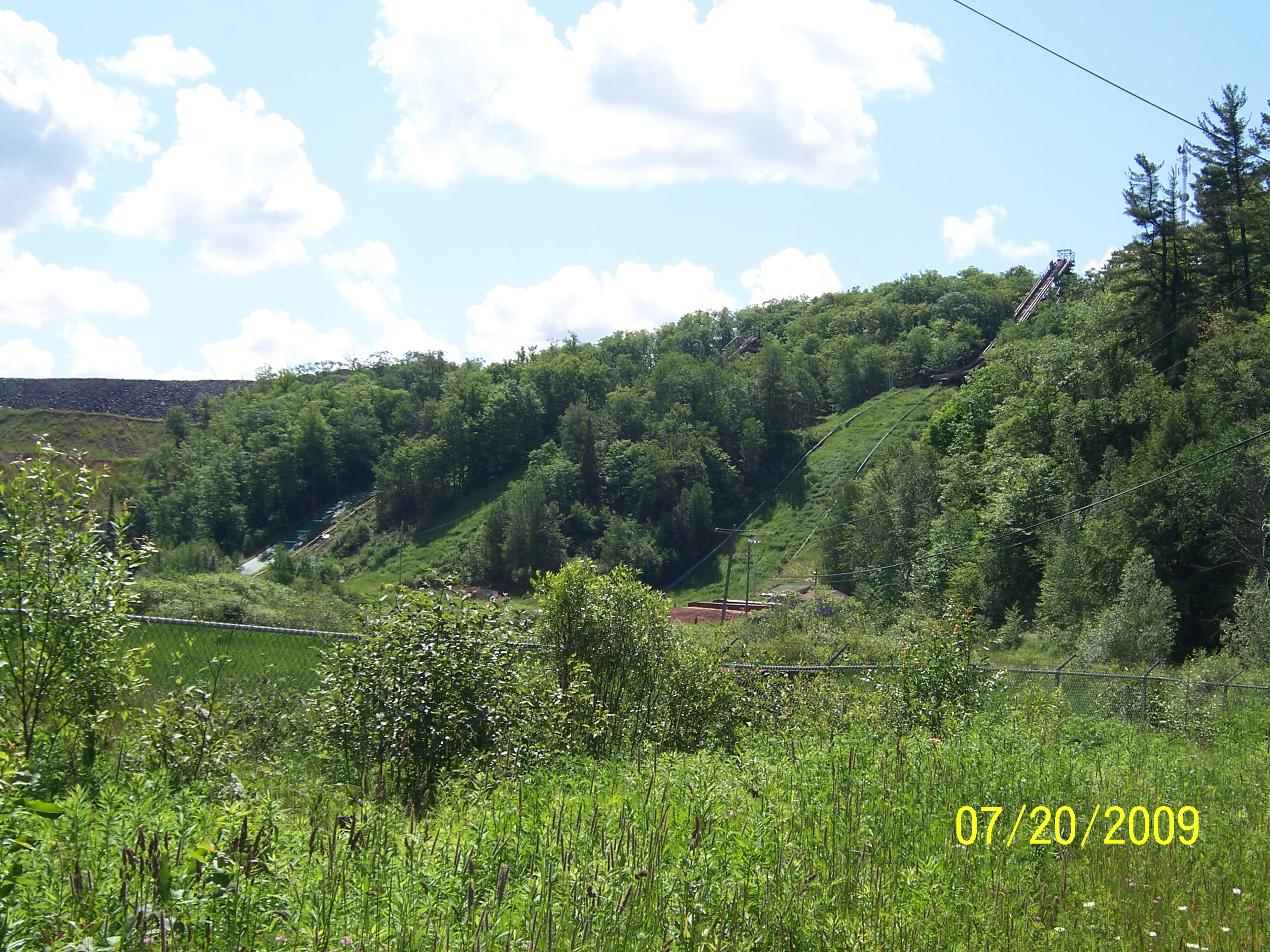 View of both jumps at Suicide Hill/Bowl